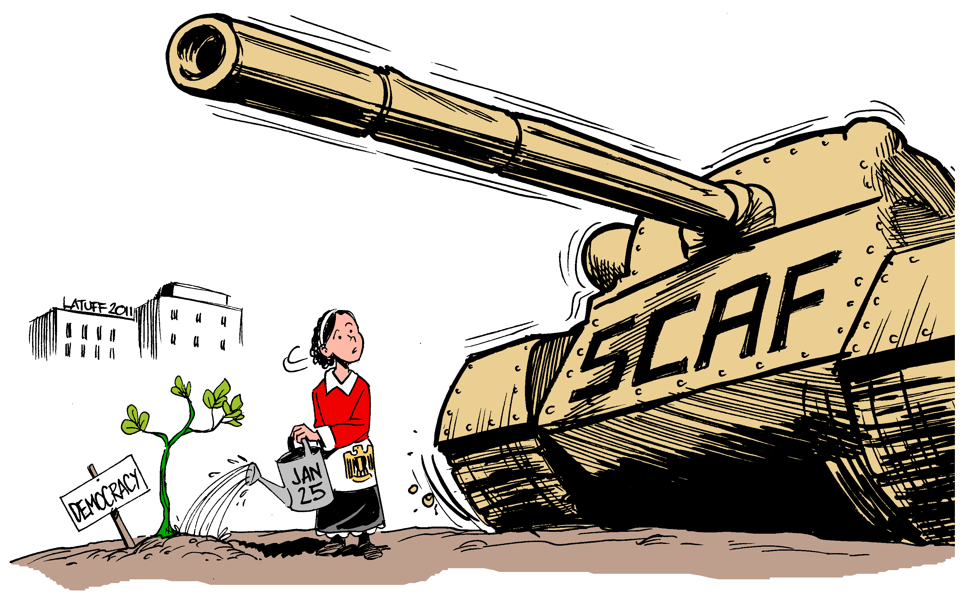 A SCAF tank trying run over a little girl watering the plant of democracy